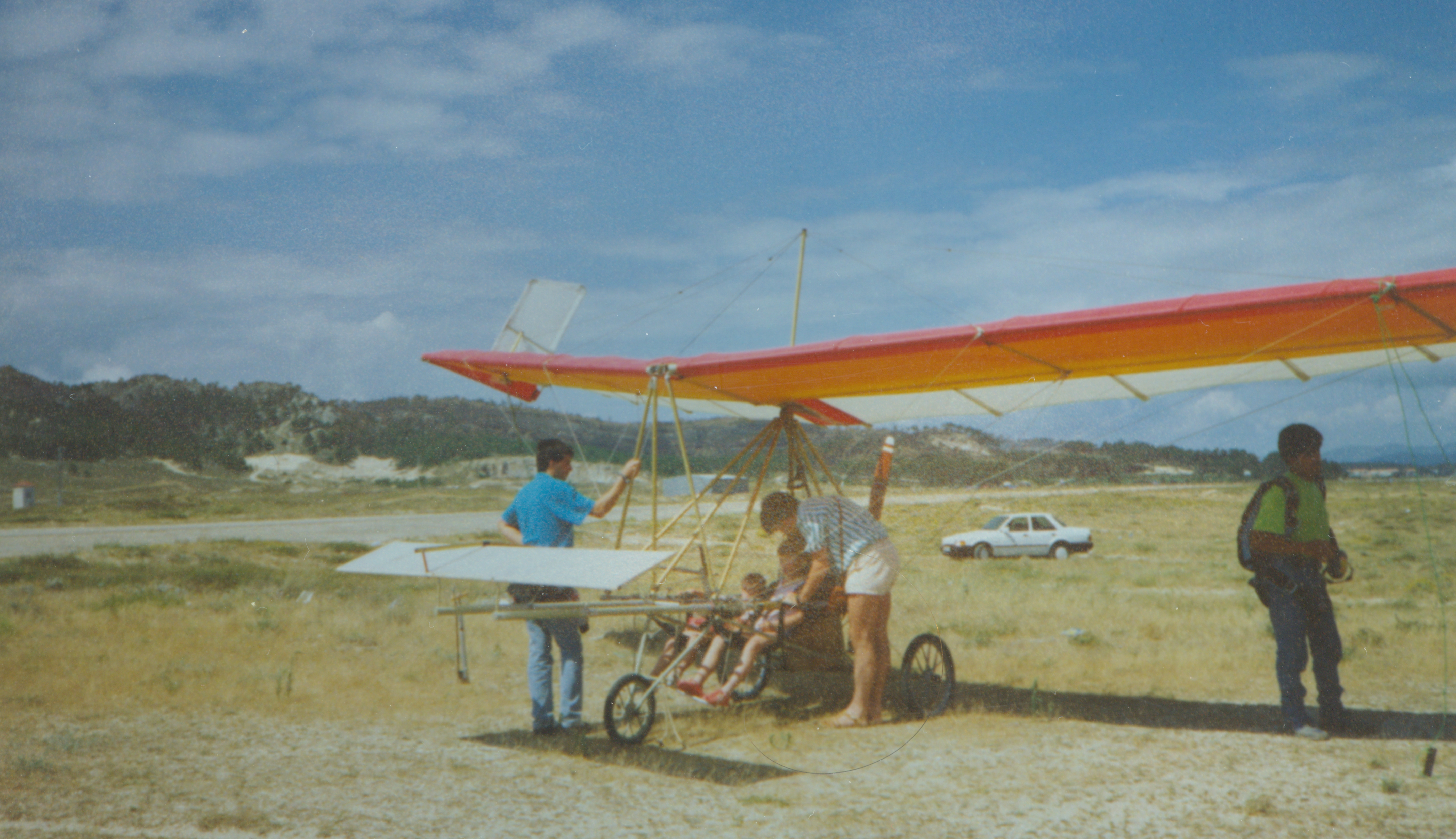 Pterodactylus